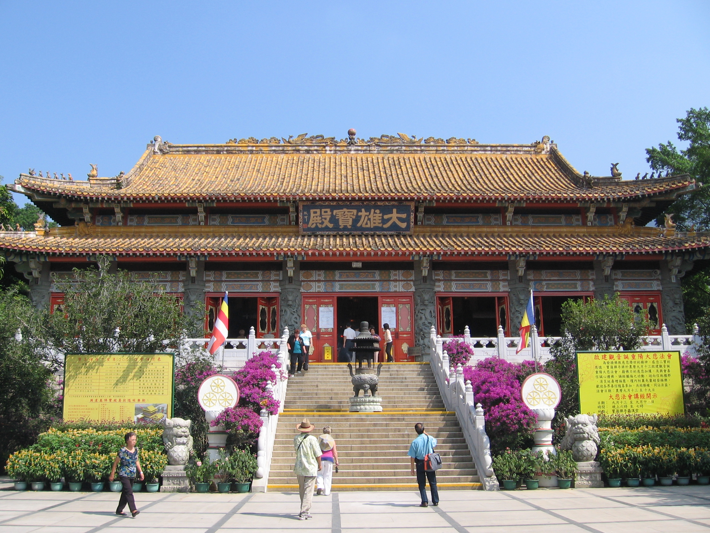 One fo the several buildings that surrond Po Lin Monastery